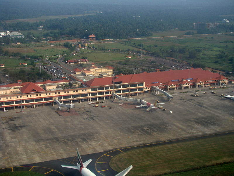 Aerial view of Kochi international airport